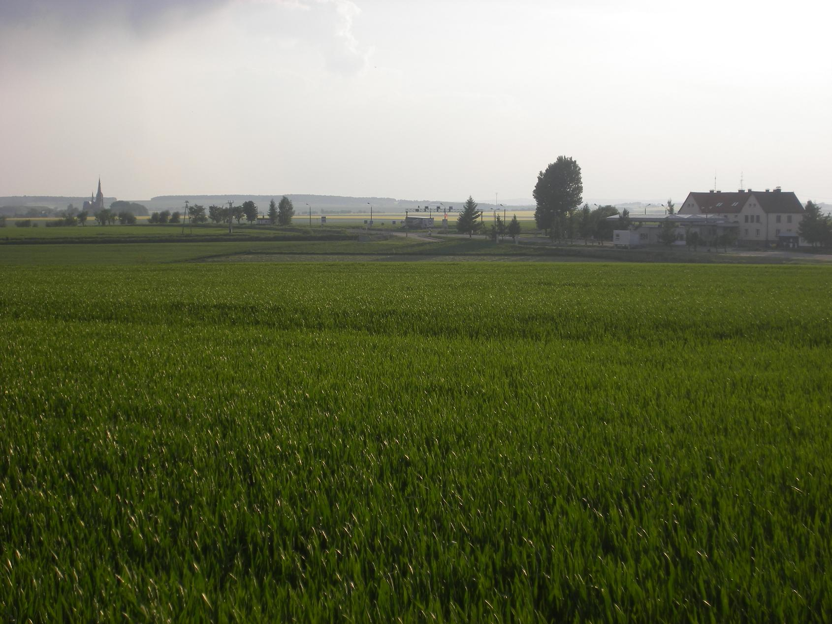 Polish-czech border in Pietraszyn-Sudice. In the background: catholic John the Baptist-church in Sudice